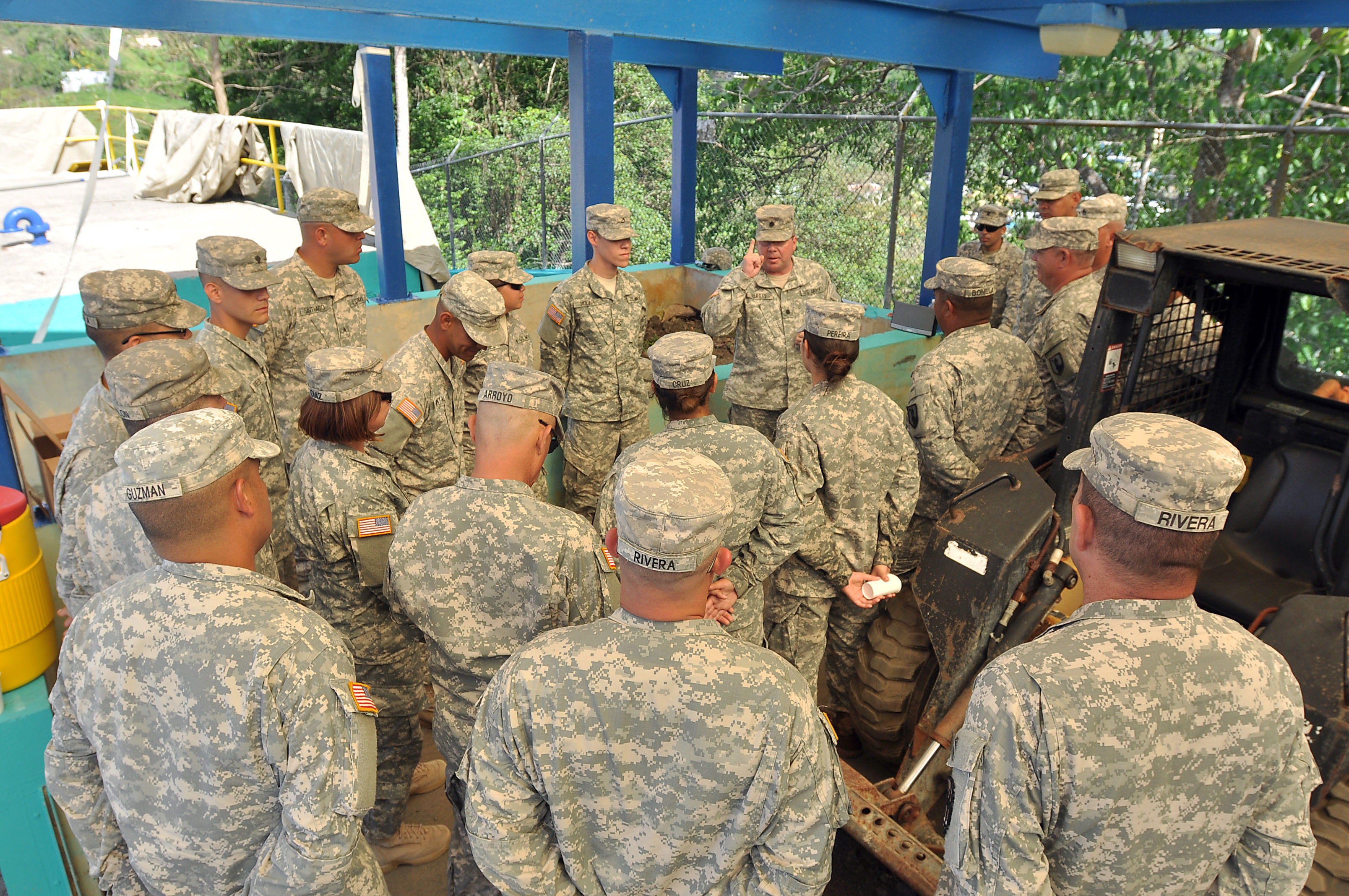 Citizen-Soldiers from the 714th Quartermaster Company, 191st Regional Support Group, Puerto Rico Army National Guard (PRANG) huddle around Lt. Col. Gonzalo Vargas, Deputy G3 of the PRANG, to receive a broader scope of the training mission from a real-world perspective at the local water utilities facility in San Lorenzo, Puerto Rico, May 30. (Army National Guard photos by Sgt. Pablo Pantoja, Joint Force Headquarters, Public Affairs Office, Puerto Rico National Guard)